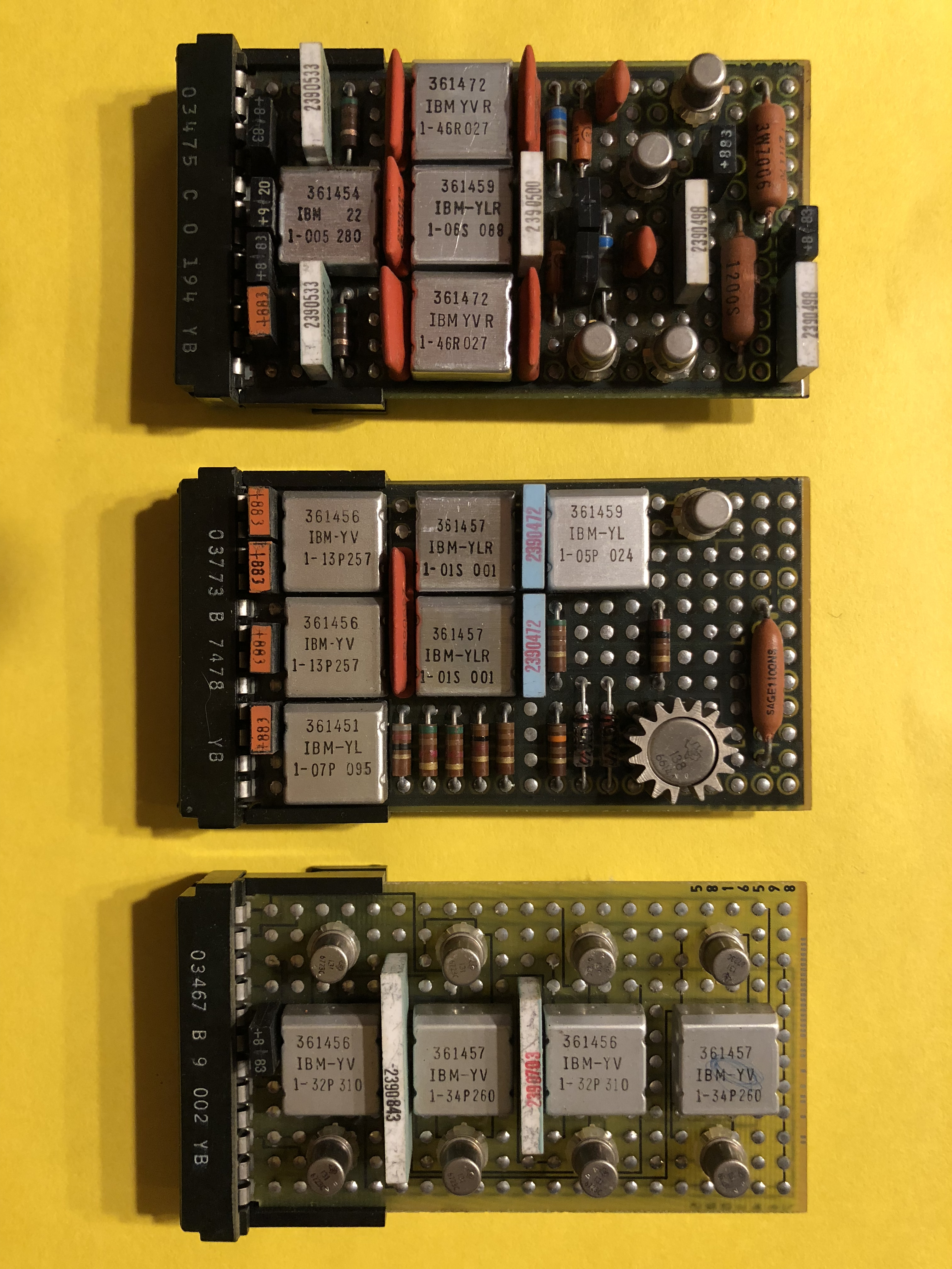 Three IBM Solid Logic Technology single width cards, 77mm x 42mm, card types 03475, 03773, 03467. From an IBM 1130. Cards courtesy of Jim Berlin.